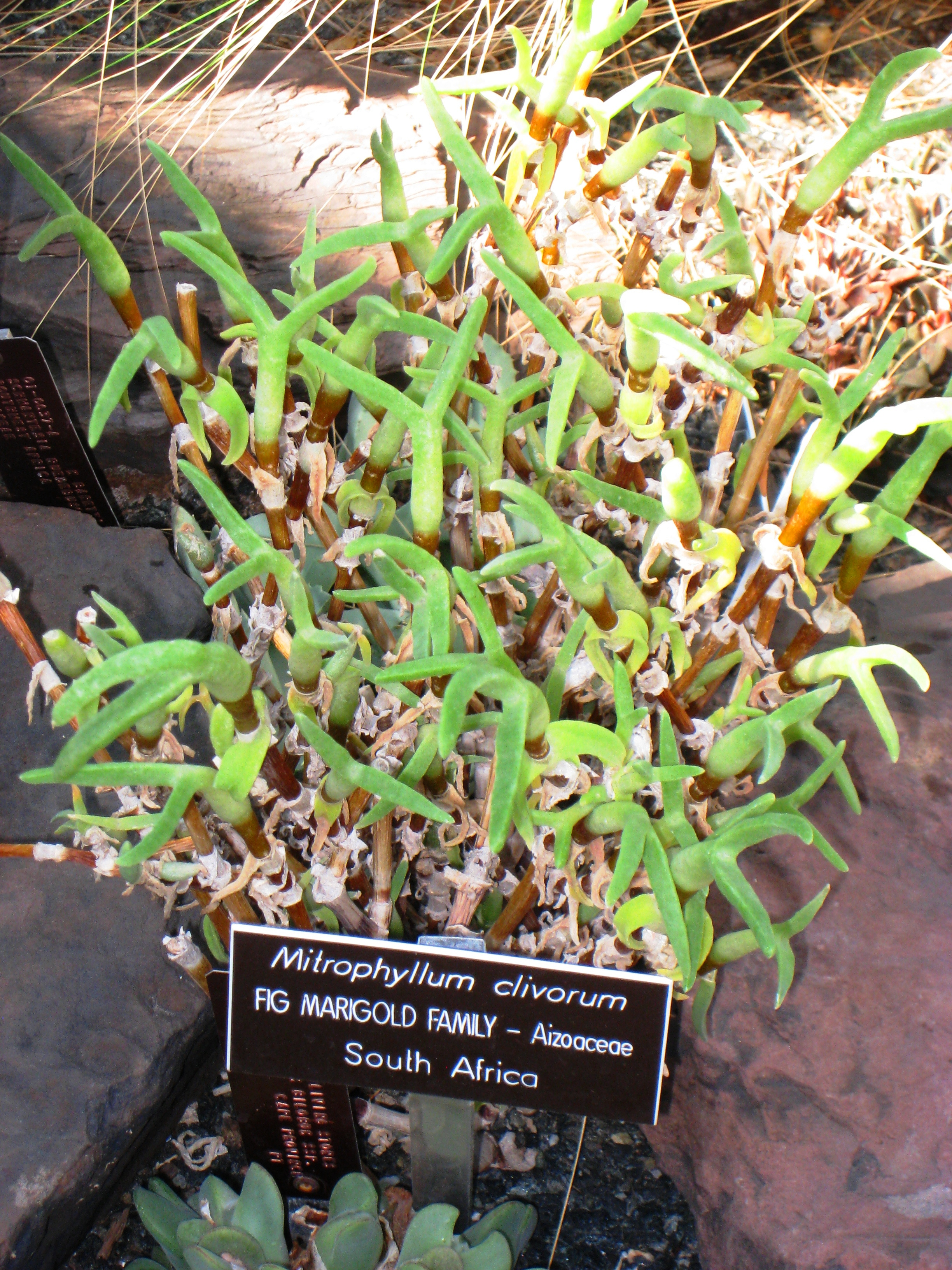 Mitrophyllum clivorum, in the United States Botanic Garden, Washington, DC, USA.